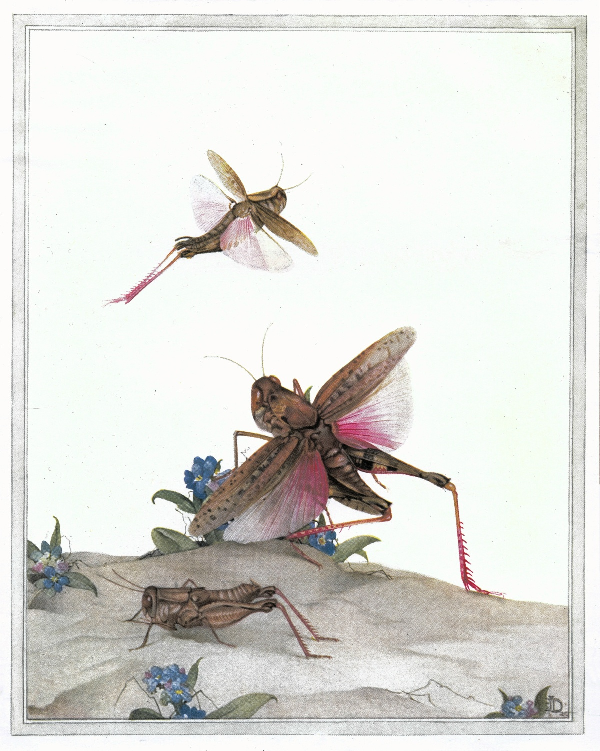 Plate from Fabre's book of Insects